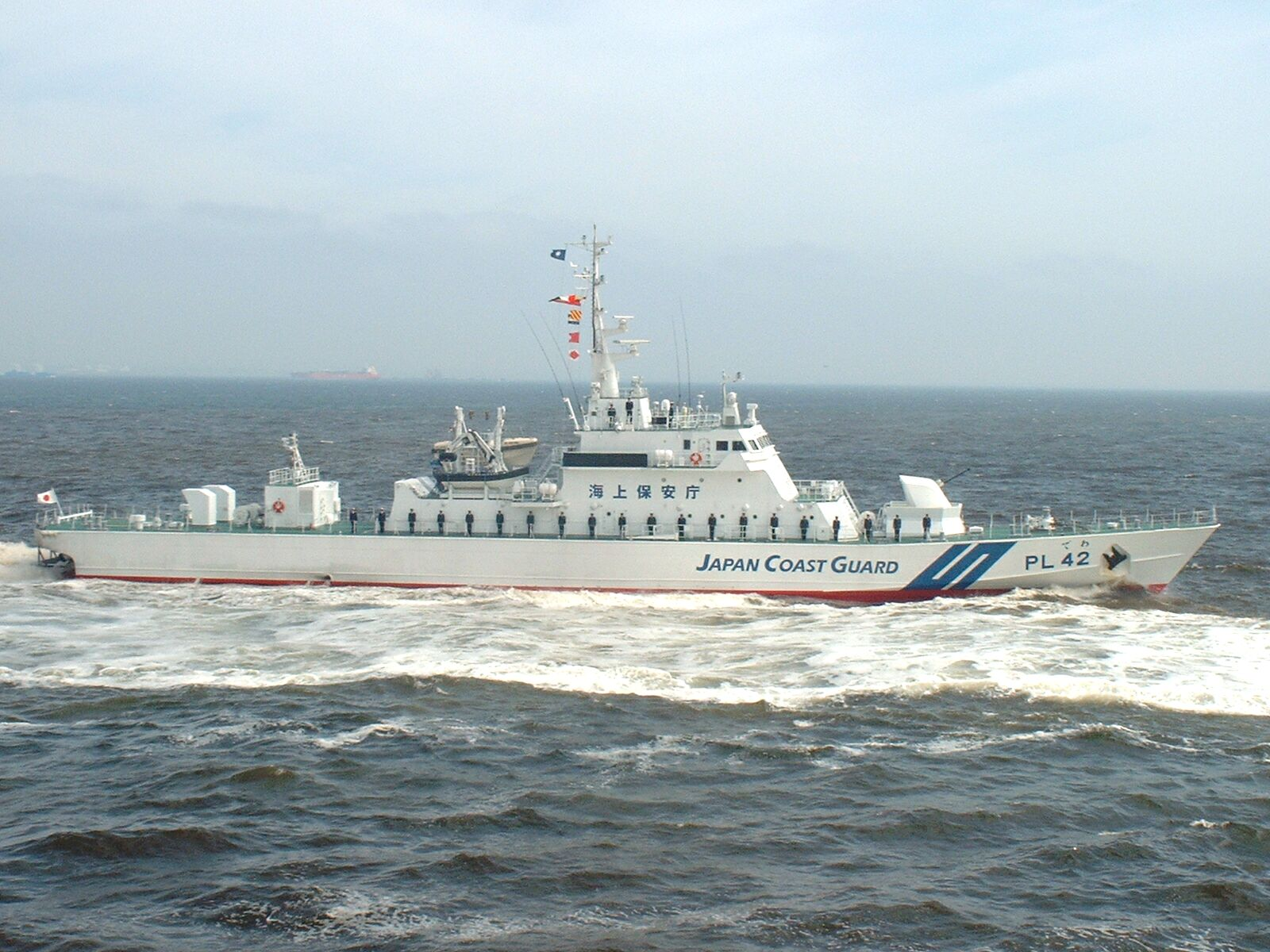 海上保安庁 巡視船 PL42「でわ」 第51回海上保安庁観閲式にて 投稿者が撮影 Japan Coast Guard(JCG) PL42 Dewa